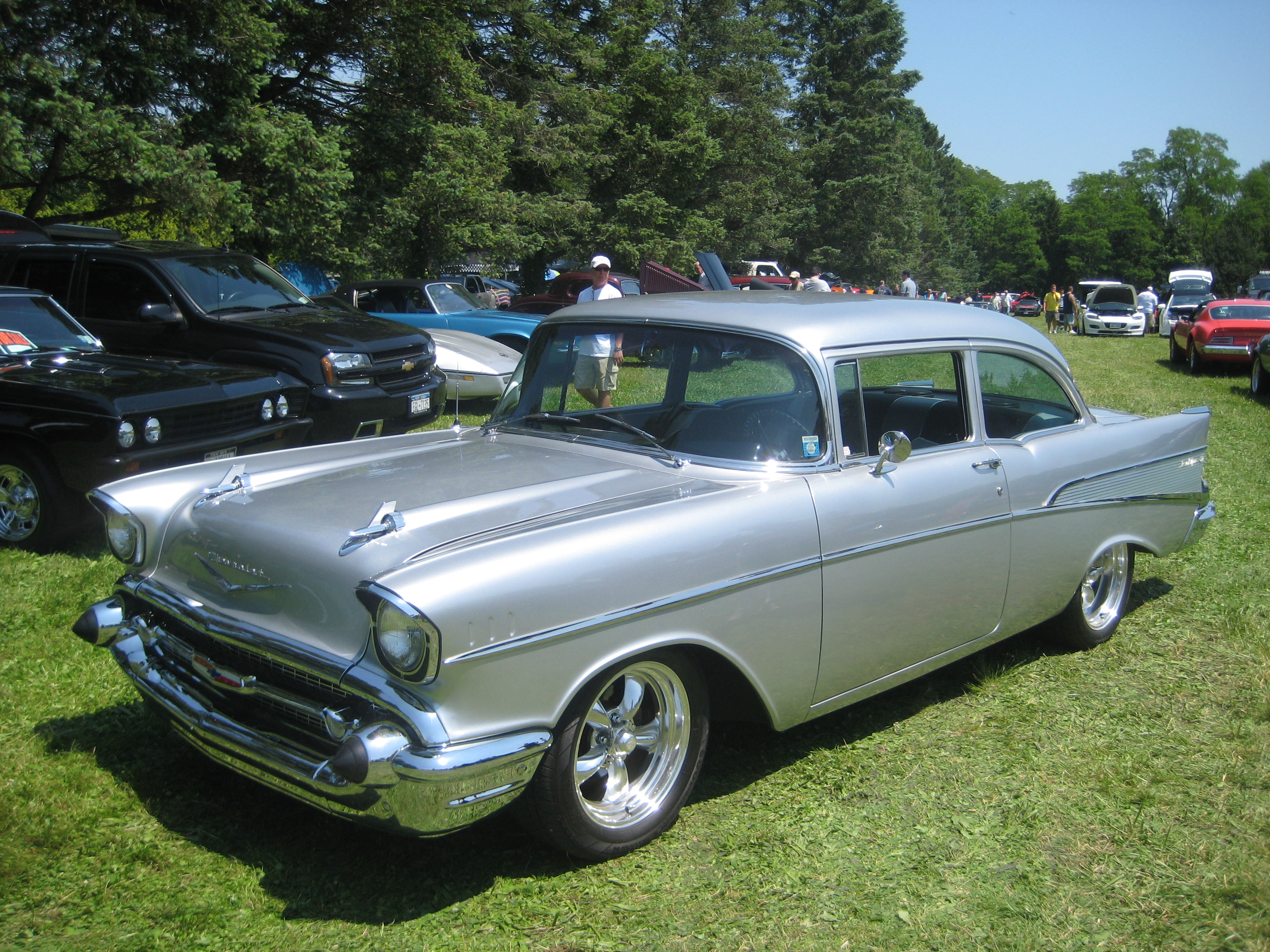 1957 Chevrolet 210 club coupe with belair side aluminum/chrome panels